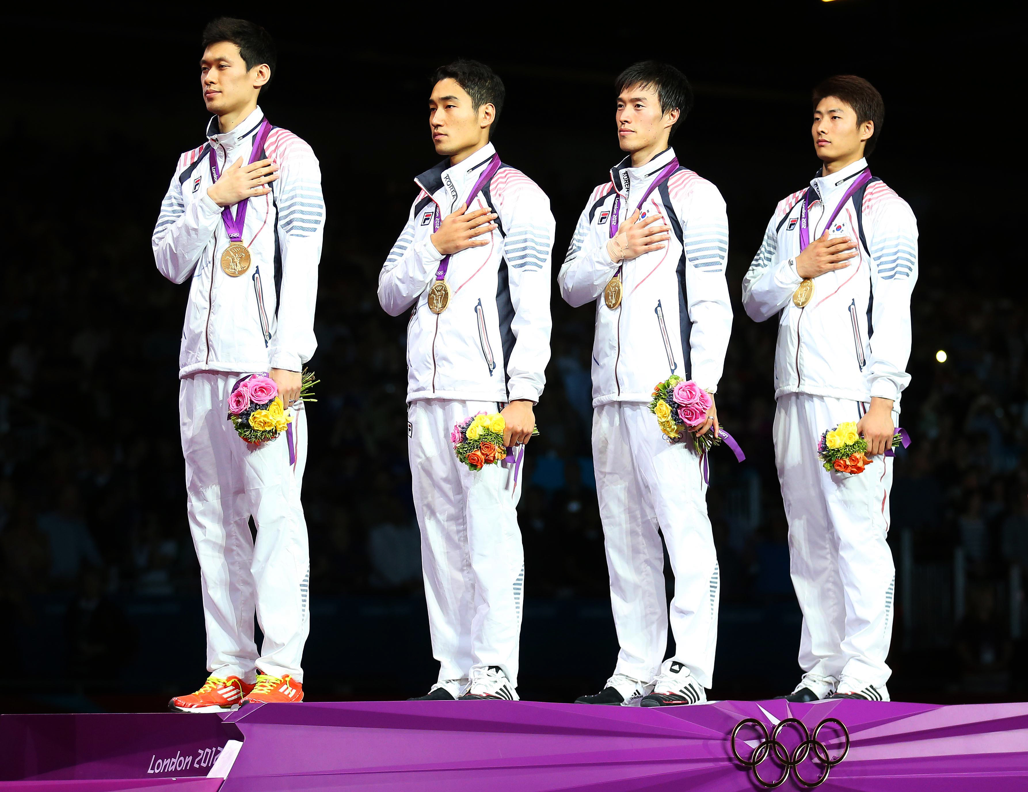 2012 London Olympic Games Korea won the gold medal men's team Saber fenching. Gu Bongil, Kim Junghwan, Won Woo-young and Oh Eunseok 2012. 08. 05. hoto by Korean Olympic Committee Ministry of Culture, Sports and Tourism Korean Culture and Information Service 2012 런던 올림픽 한국 남자 사브르 단체전 금메달 획득 구본길, 김정환, 원우영, 오은석 사진제공 - 대한체육회 문화체육관광부 해외문화홍보원